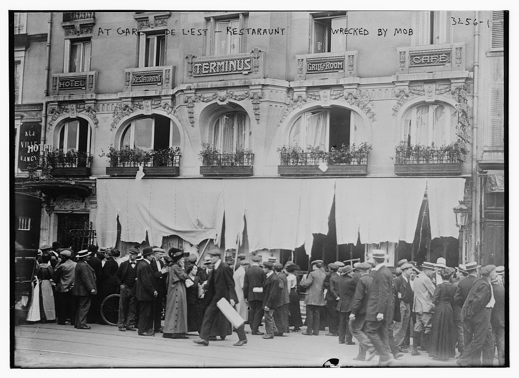 Bain News Service,, publisher. At Gare De L'Est -- Restaurant wrecked by mob [no date recorded on caption card] 1 negative : glass ; 5 x 7 in. or smaller. Notes: Title from unverified data provided by the Bain News Service on the negatives or caption cards. Forms part of: George Grantham Bain Collection (Library of Congress). Format: Glass negatives. Repository: Library of Congress, Prints and Photographs Division, Washington, D.C. 20540 USA, General information about the Bain Collection is available at Persistent URL: Call Number: LC-B2- 3256-1